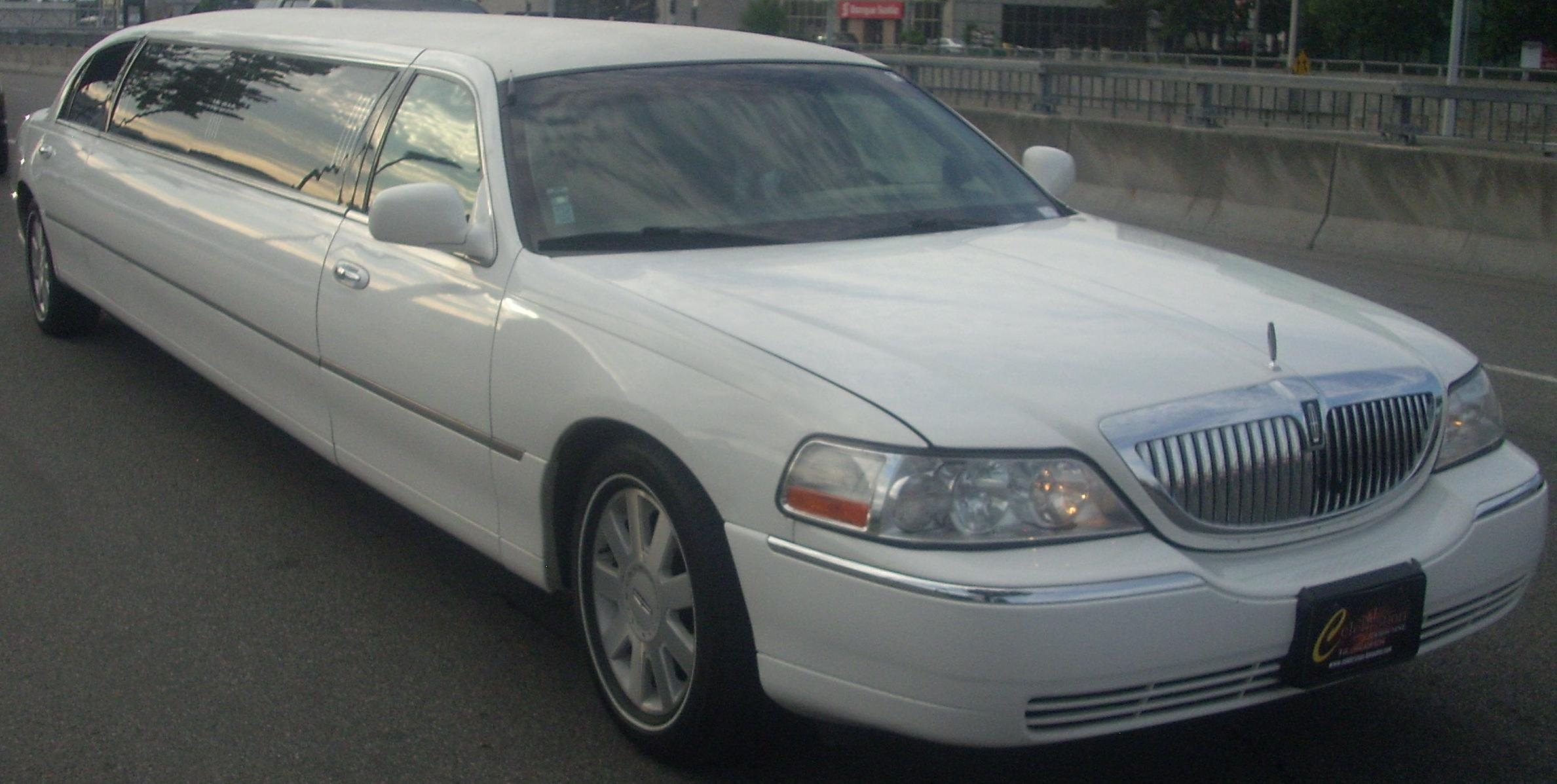 Lincoln Town Car photographed in Montreal, Quebec, Canada.